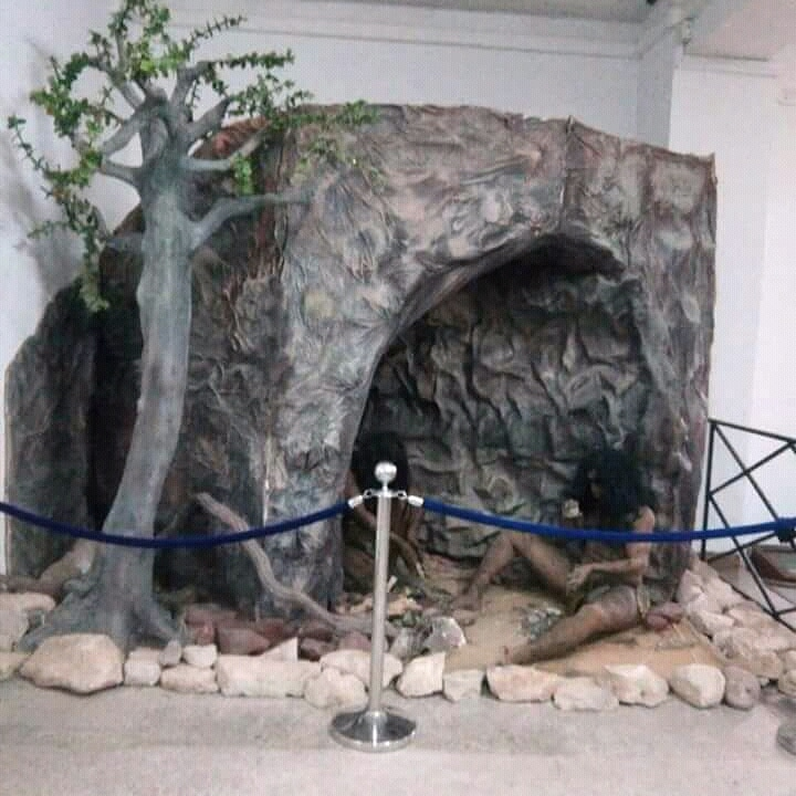 متحف